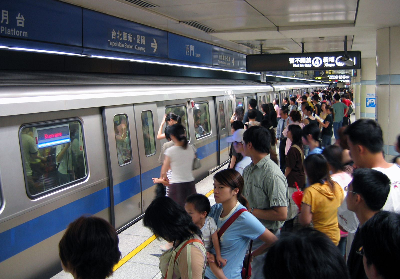 Platform 1, Tapei MRT Ximen Station.Bân-lâm-gú: Tâi-pak Tsiat-ūn Se-mn̂g Tsām. 臺北捷運西門站第一月台。